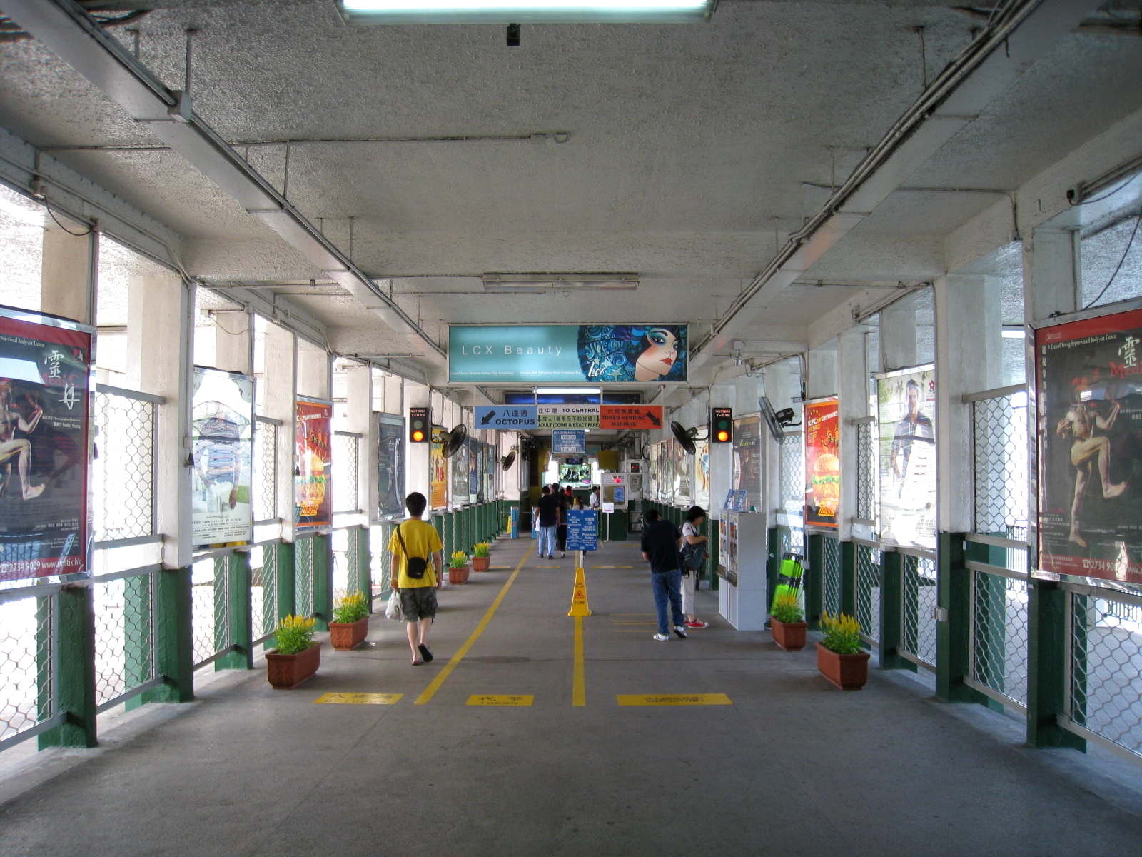 Tsim Sha Tsui Ferry Pier Entrance Gate